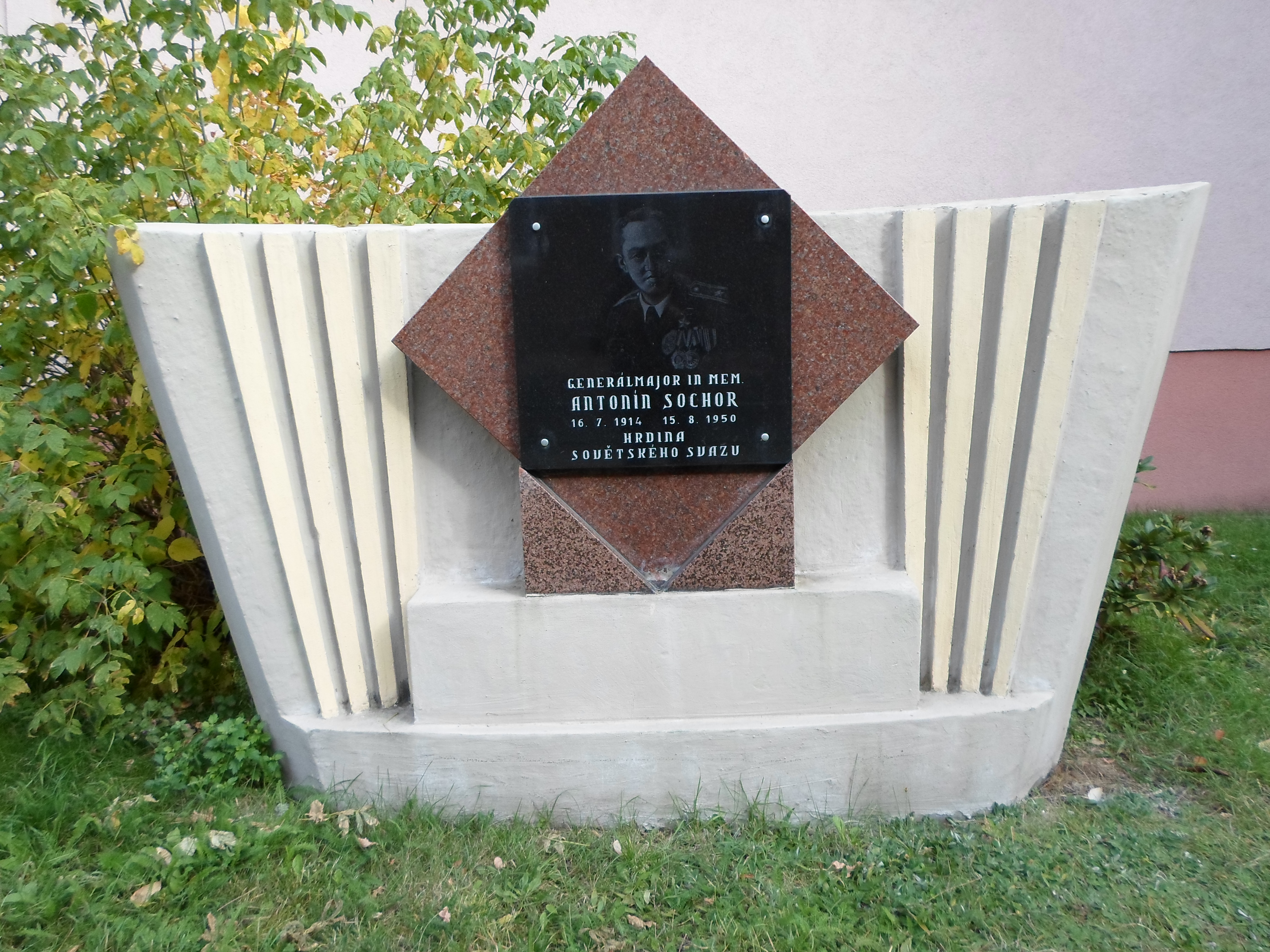 Antonin Sochor Memorial, Jirkov, Czech Republic